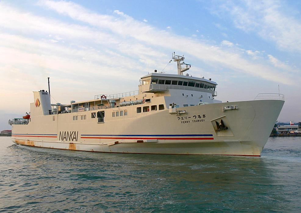 "Tsurugi" departs from Tokushima Port about the Nankai Ferry.